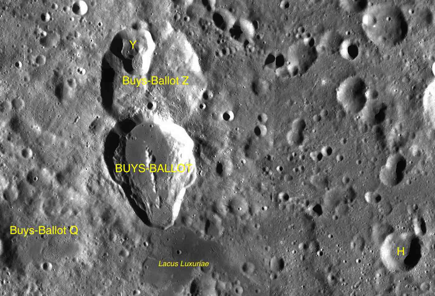 Part of the chart LAC-50 used for the presentation